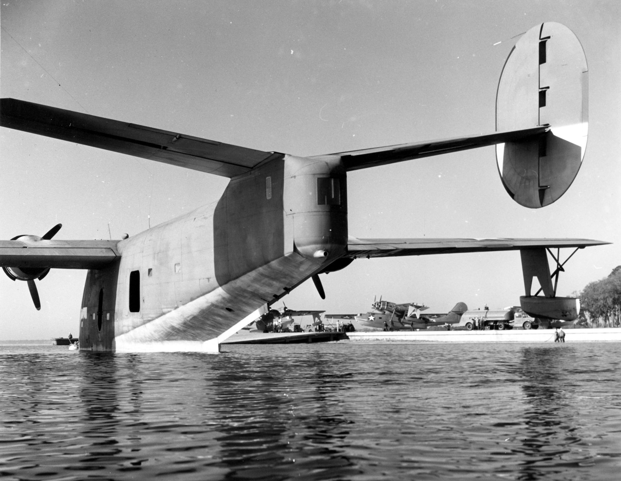 A Consolidated PB2Y-5R Coronado at the Naval Air Station Jacksonville, Florida (USA), in 1943. Two Consolidated PBY Catalinas are visible in the background.